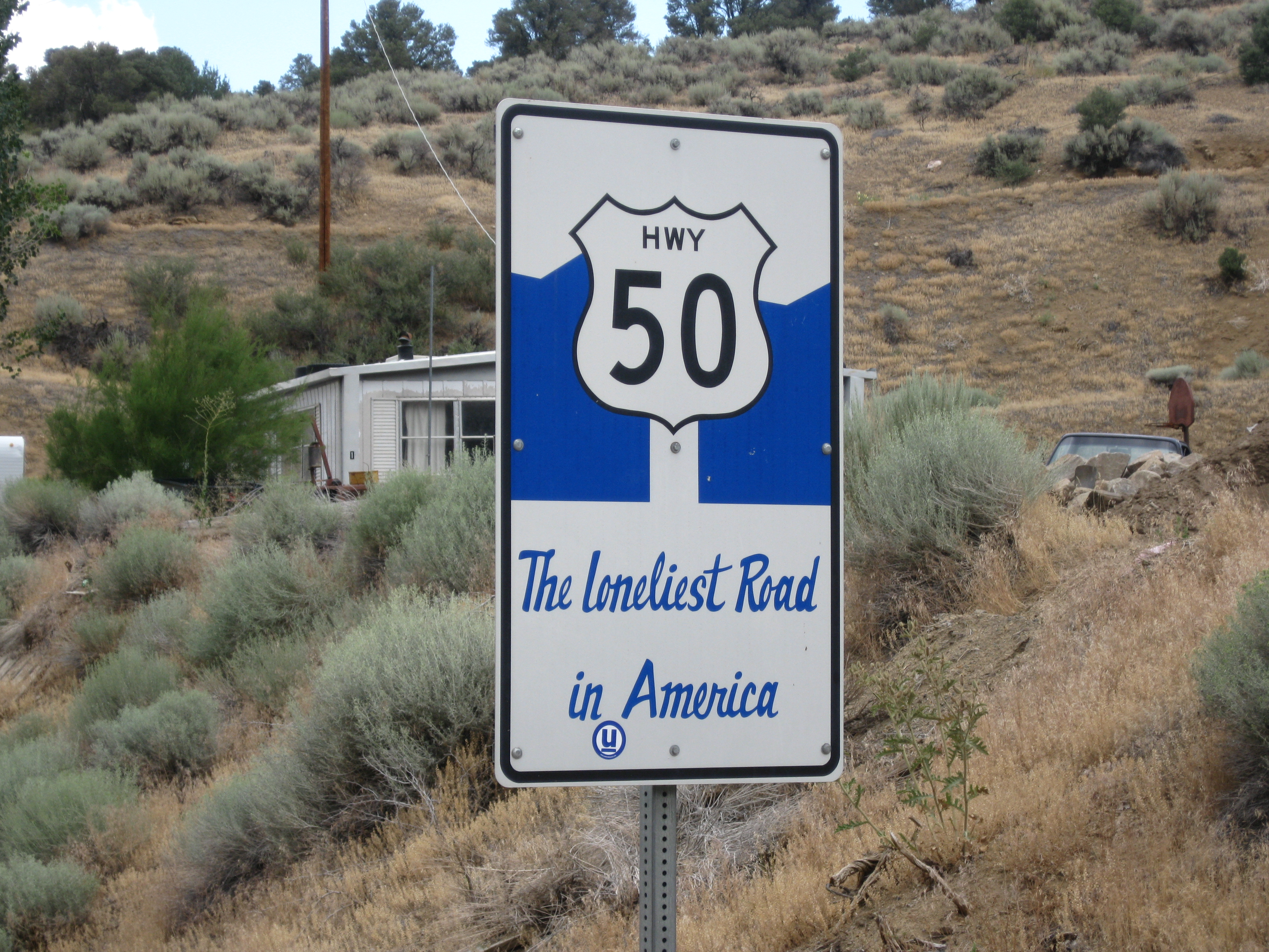 A photograph of the sign declaring US-50 as the loneliest road in America.